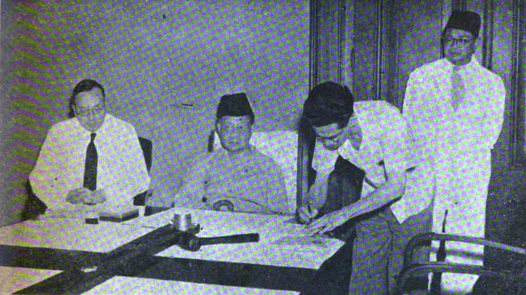 Djumhana signing his appointment as the formateur of the new cabinet on 28 December 1948, oversaw by the Wali Negara of Pasundan Wiranatakusumah, the speaker of the Parliament of Pasundan Djuarsa, and the High Commissioner of the Crown in the State of Pasundan R.W. van Diffelen.